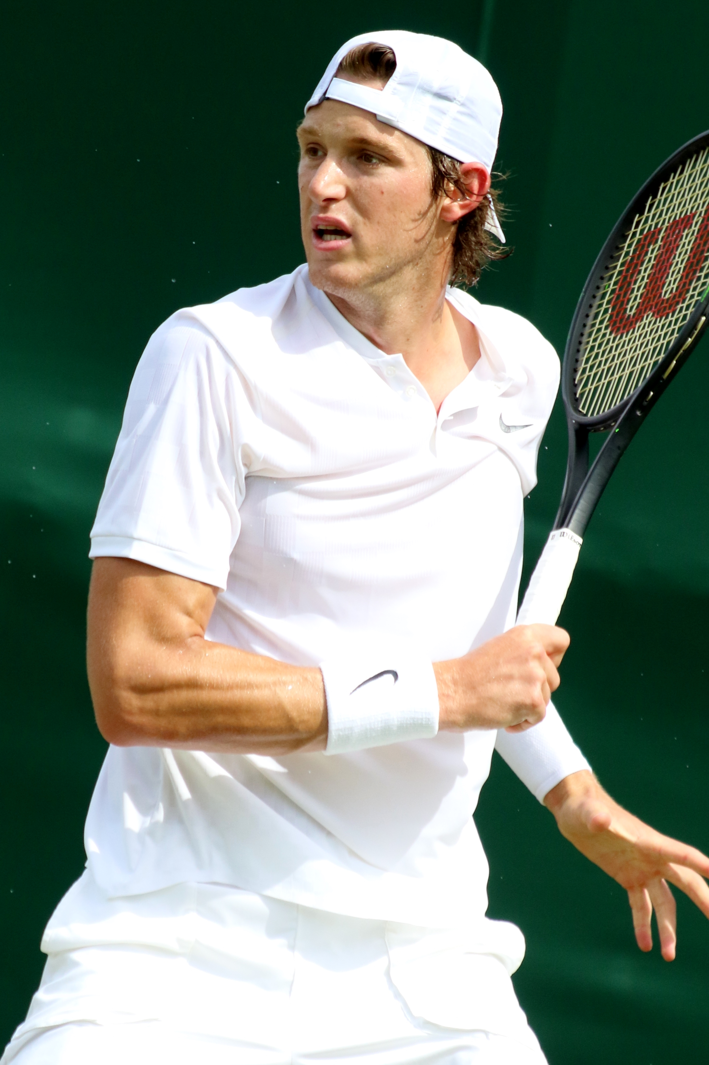 Jarry WM17 (19)